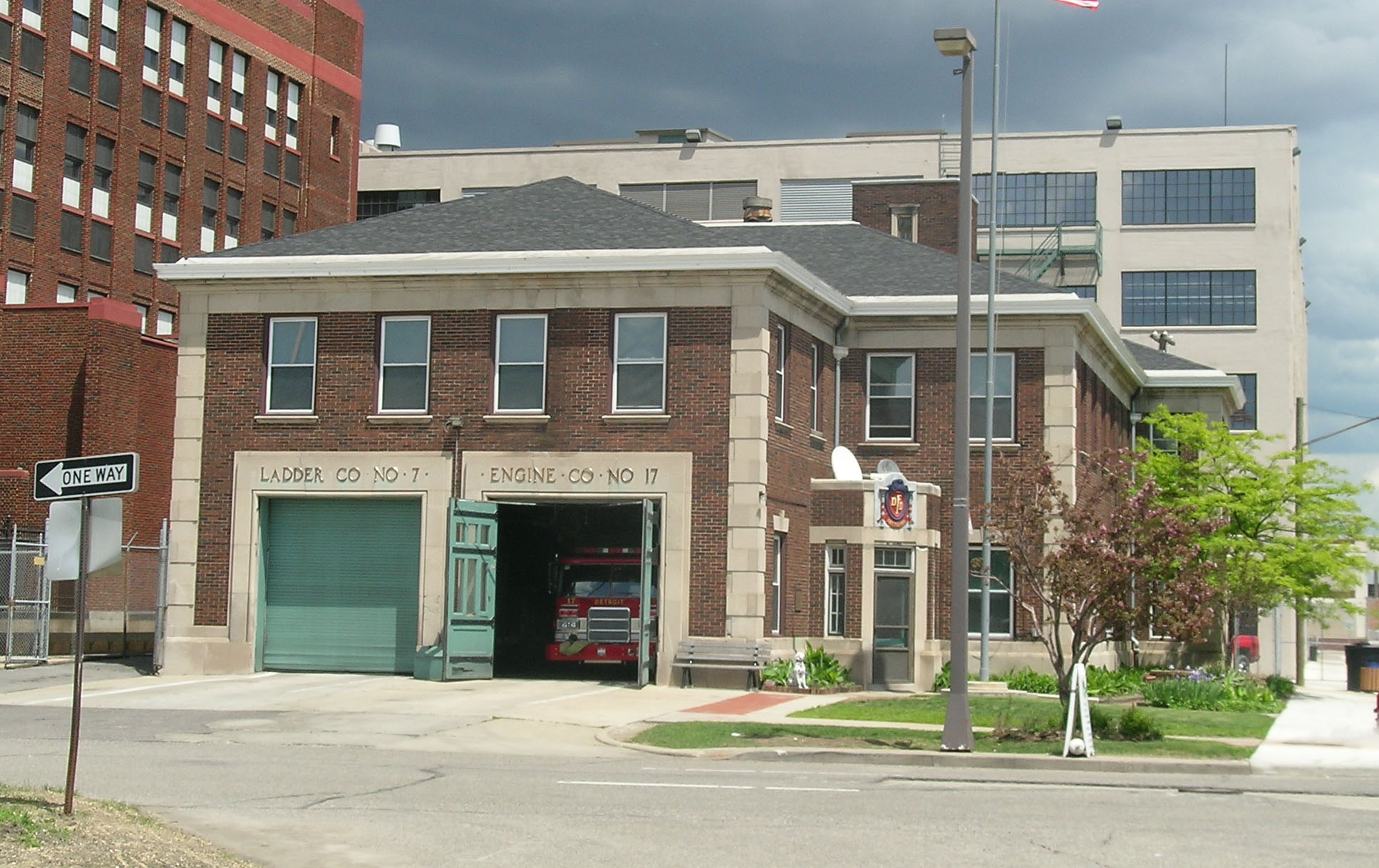 The Engine Company 17/Ladder Company 7 firehouse at 6100 2nd Avenue, Detroit, Michigan, United States, lies within the New Amsterdam Historic District.